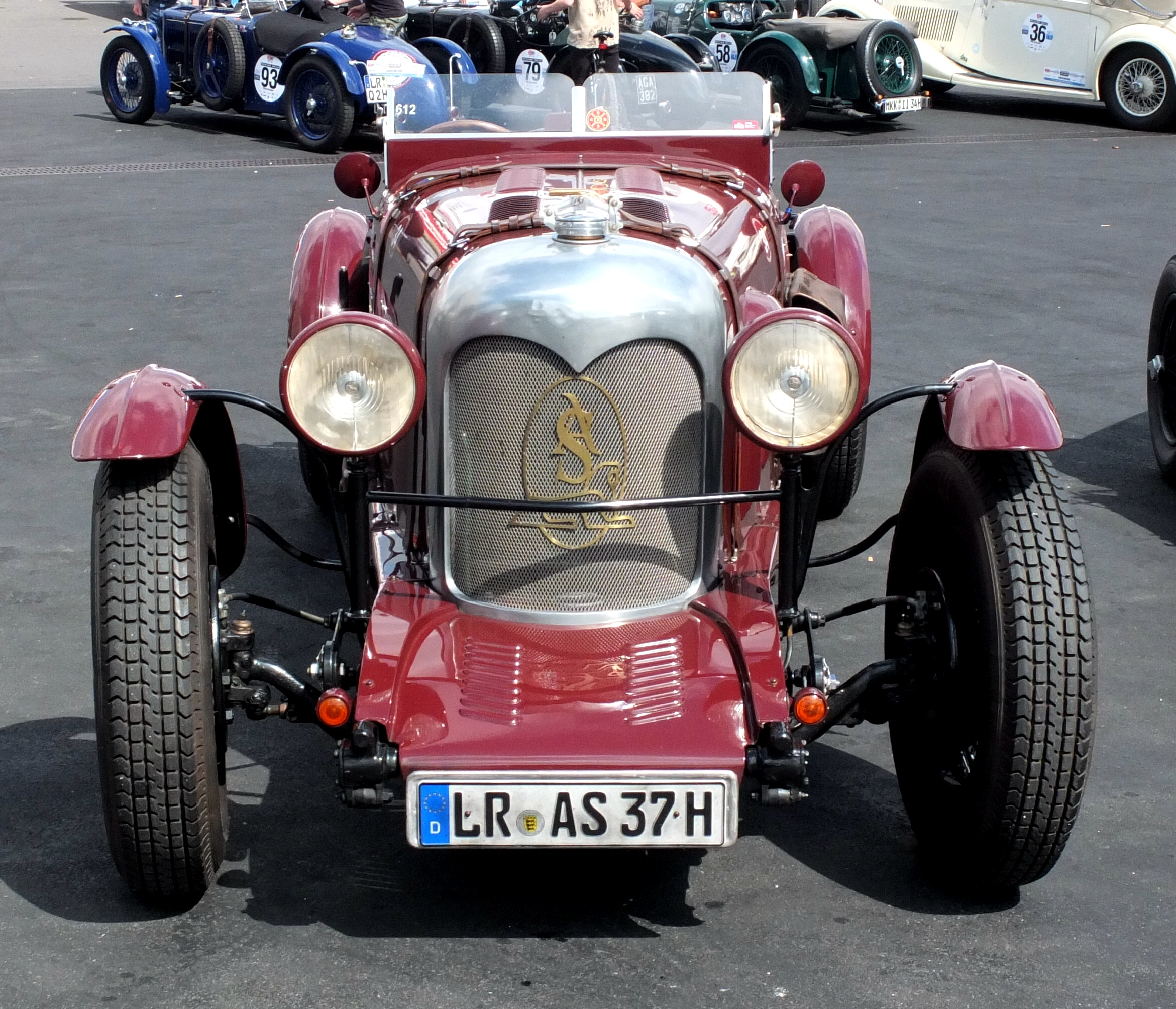 Armstrong Siddeley 17 HP Special, built 1937. Seen at "Nürburgring Classic" 2017.